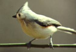 Tufted Titmouse